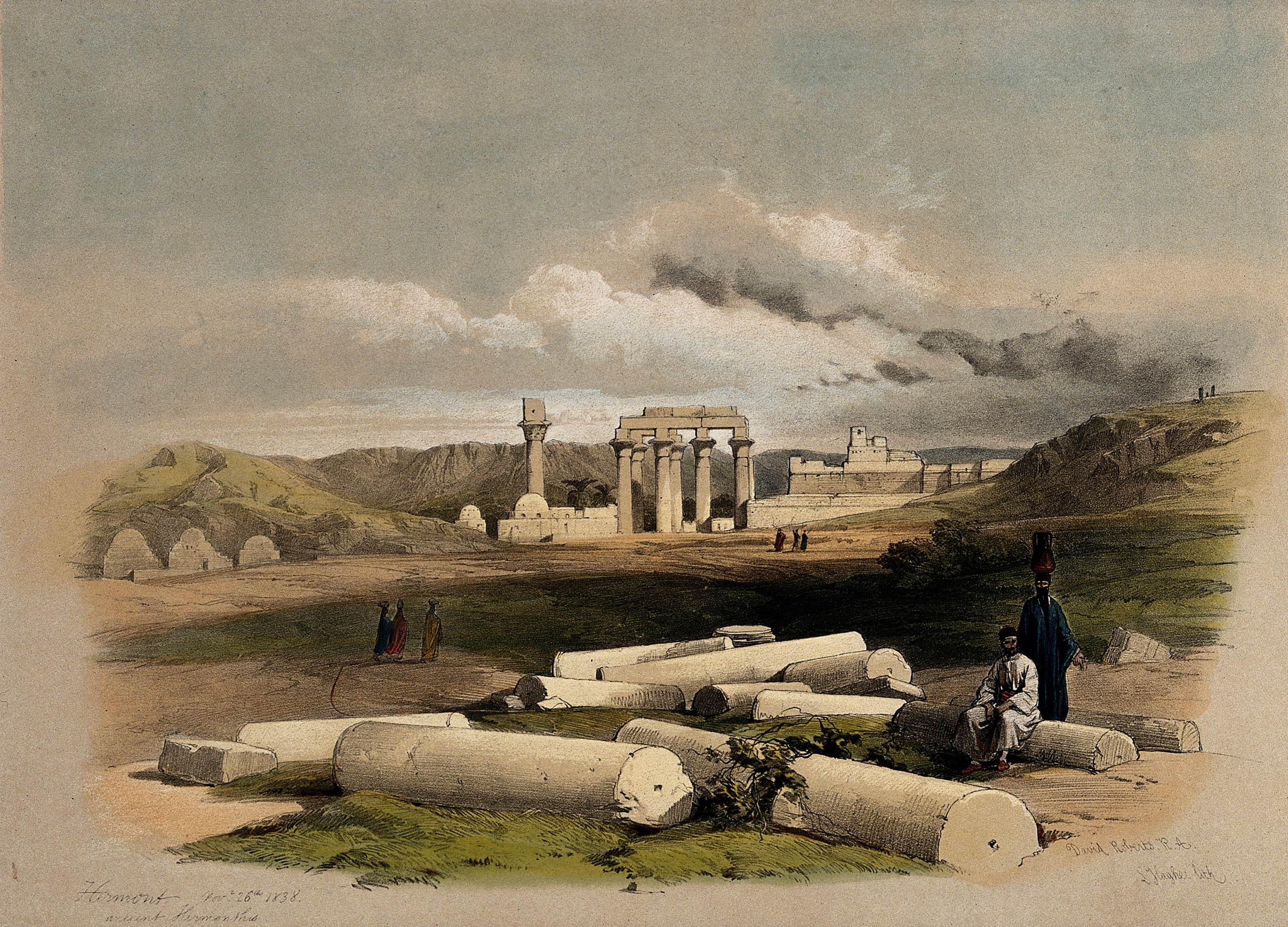 Ruins of Erment, ancient Hermontis, Egypt. Coloured lithograph by Louis Haghe after David Roberts, 1848. Iconographic Collections Keywords: David Roberts; Louis Haghe